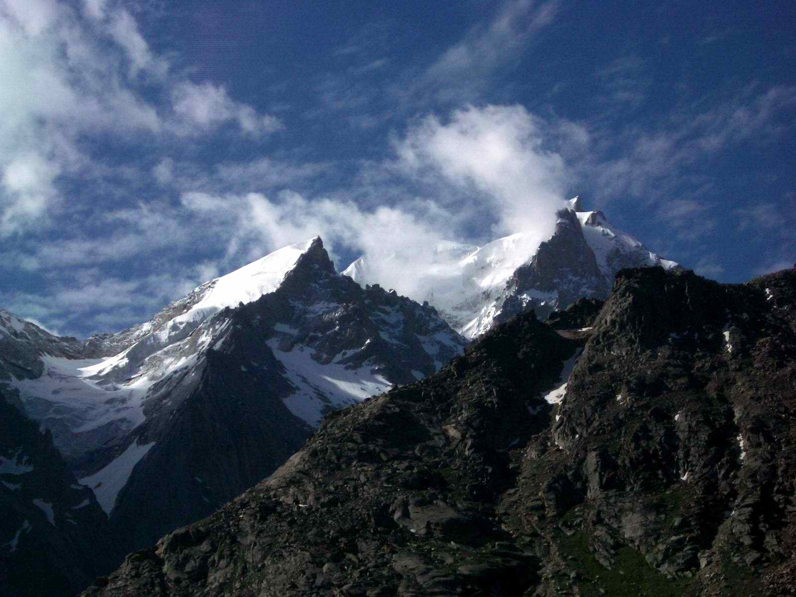 Mountain peaks in Lahul district, Himachal Pradesh, India